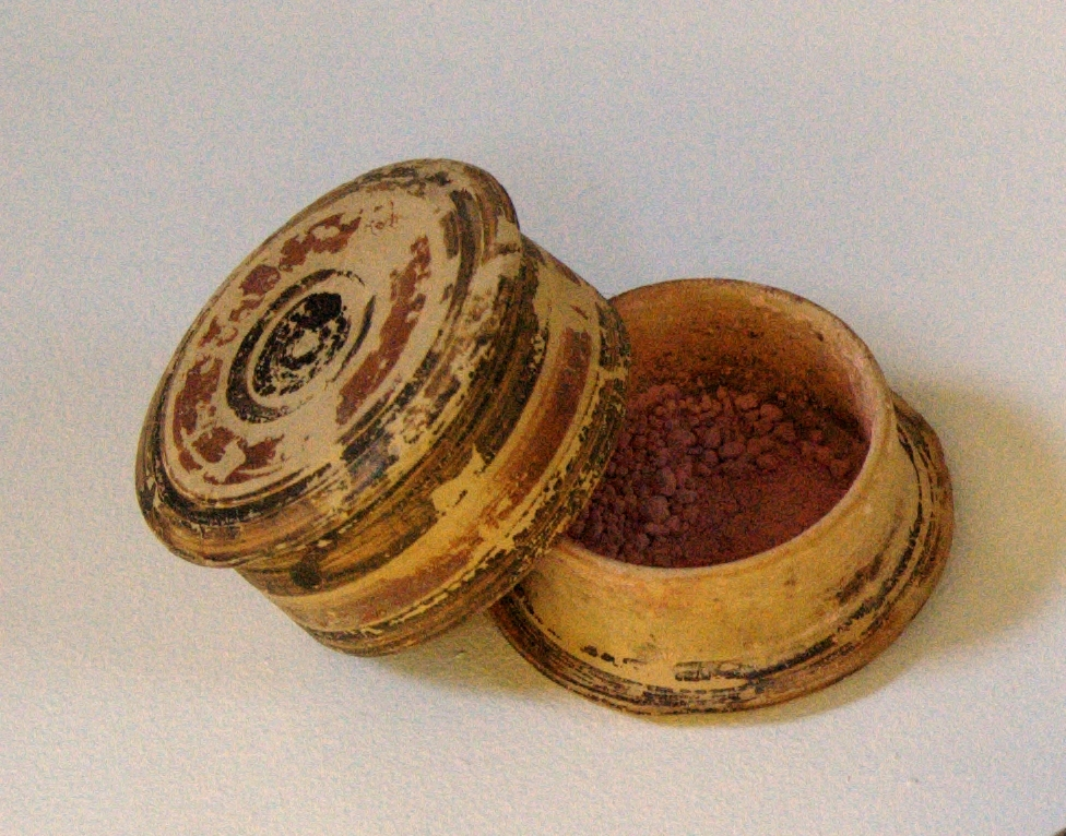 Corinthian pyxis with a red make-up powder. Found in a tomb from the 5th c. BC.